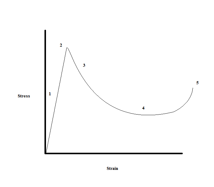 This graph shows the steps of fiber pushout in a stress strain graph